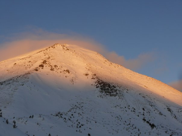 Petros in winter